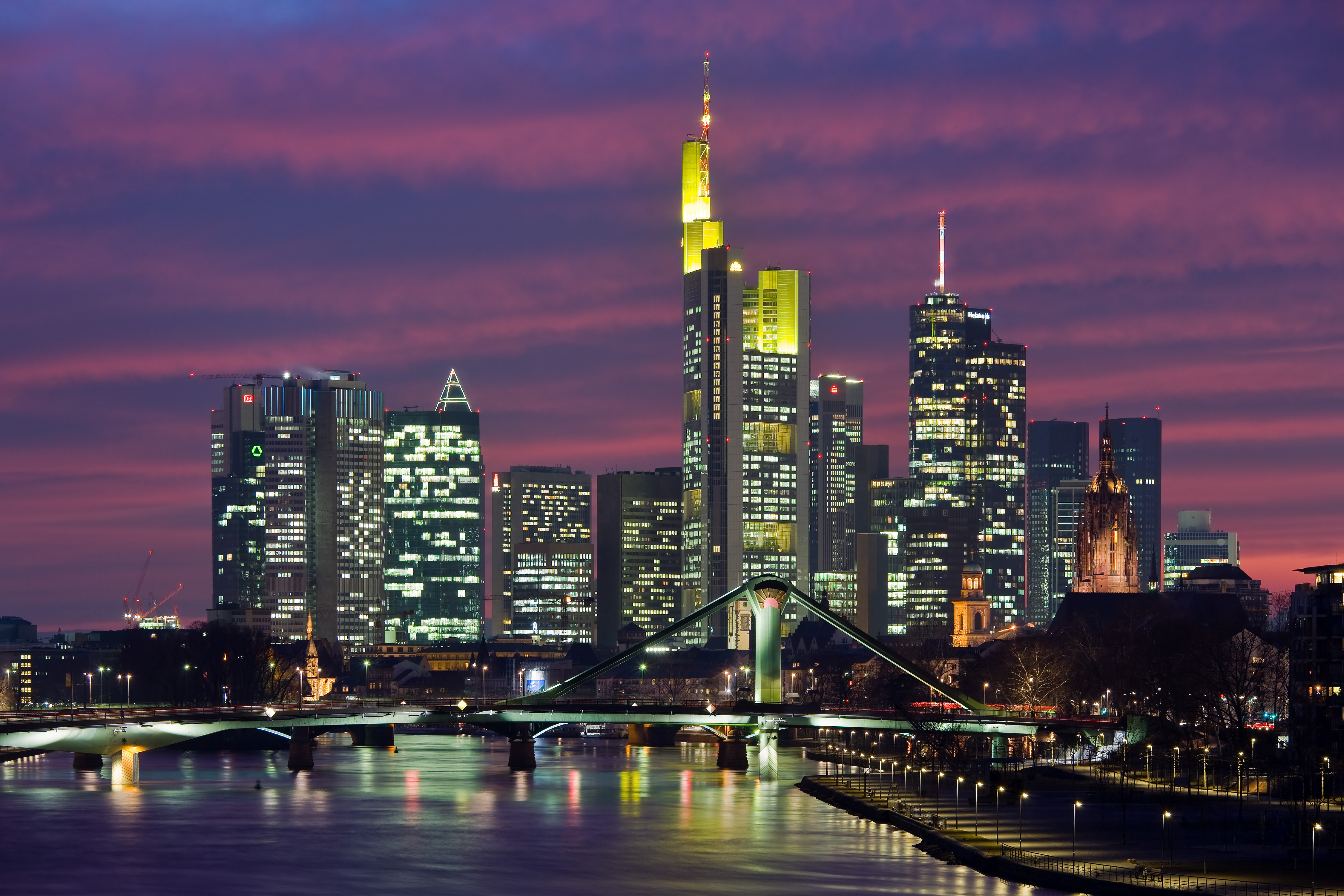 Frankfurt on the Main: View of the city as seen from the Deutschherrnbruecke (Teutonic Knights Bridge) at dusk